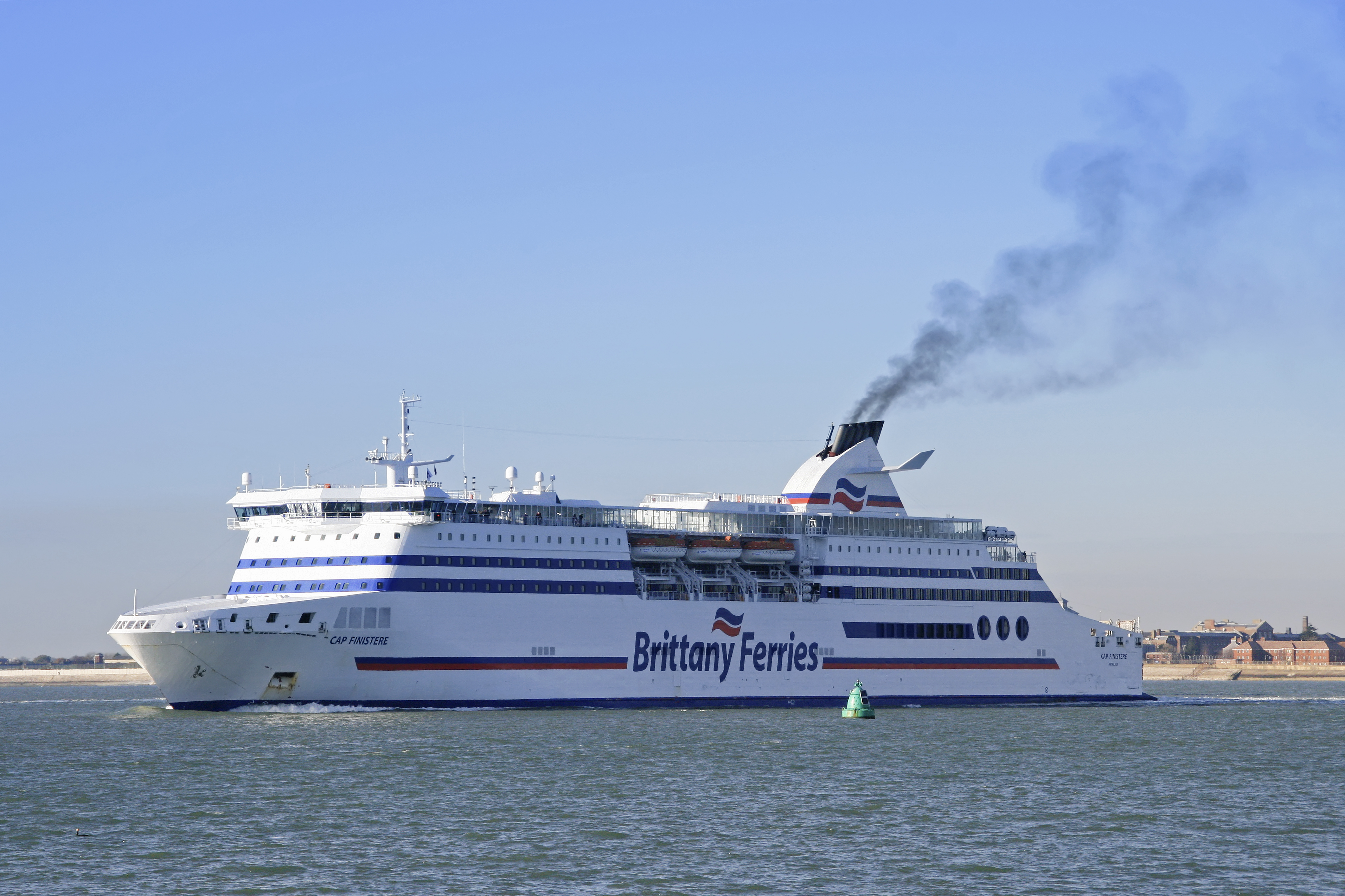 Brittany Ferries 32,728 GRT Ro-Ro ferry MV Cap Finistère outward bound from Portsmouth to Bilbao on 26 November 2010. Image uploaded by me User:George.Hutchinson from a photograph taken by and supplied by Brian Burnell. Wikipedia editors are reminded that the copyright remains with the photographer, and that the terms of the Creative Commons licence; that allow editors to reuse this image apply to Wikipedia editors also, as they do to other re-users of this image. Breaches of the licence terms are not only unlawful, but are also antisocial, in that breaches discourage photographers from making their images freely available to everyone without payment. Wikipedia re-users are also reminded of the license terms that derivatives of this image should not imply that the adaptation is endorsed or approved by the author or copyright holder. Neither should derivatives be presented as the creation of the author or copyright holder, while clearly stating that the adaptation is a derivative of the original. Attribution online should be in this format Brian Burnell. On the printed page, a simpler form is acceptable - example: "Image: Brian Burnell". Non-Wikipedia users are requested to advise Brian Burnell of its use other than on Wikipedia.